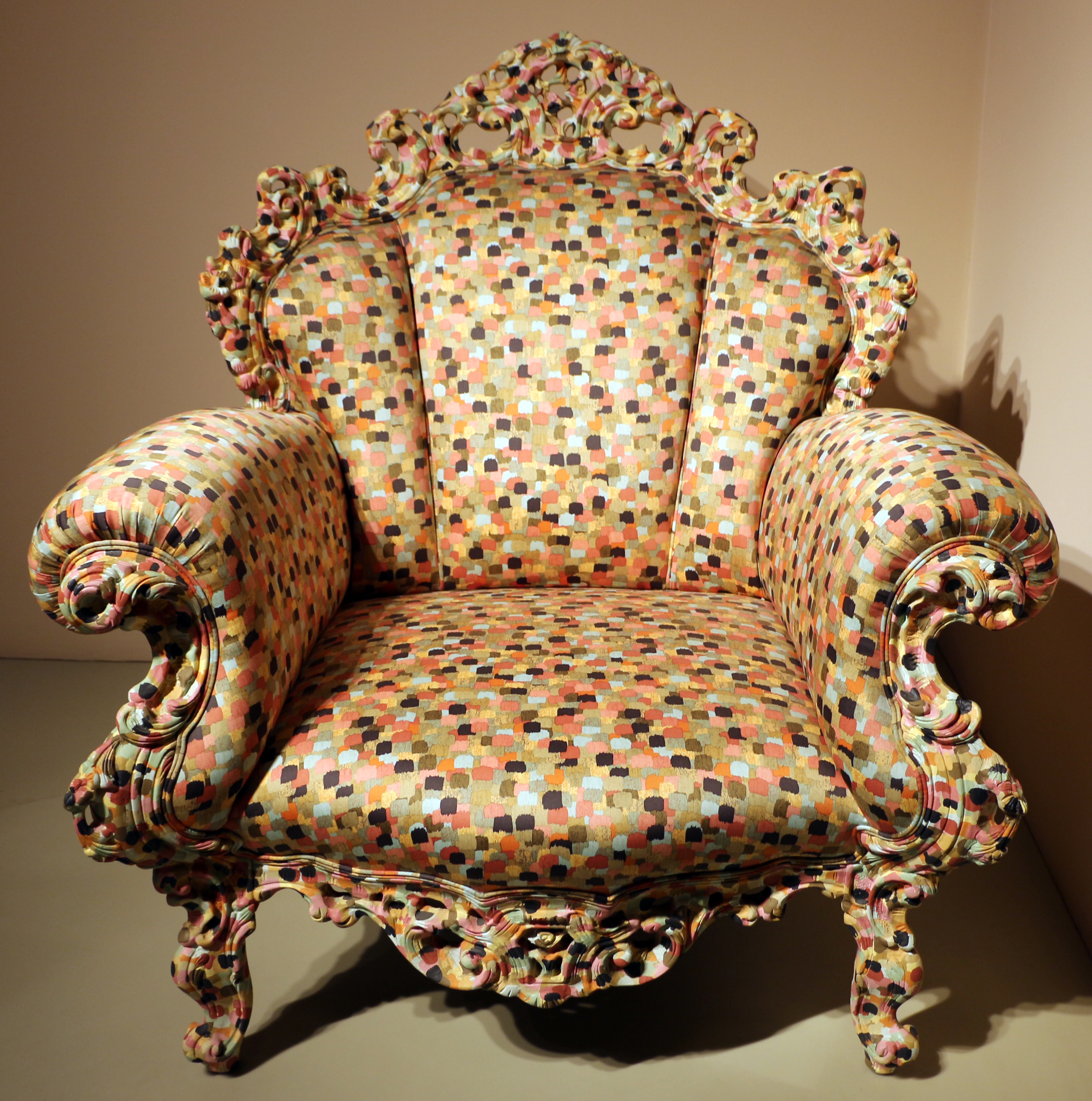 Furniture Museum (Milan)